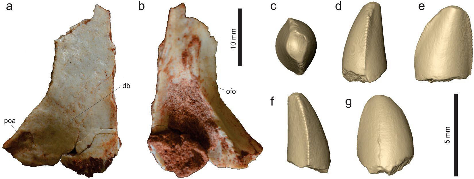 Cranial and dental remains of Vespersaurus paranaensis gen. et sp. nov. (a,b) Isolated frontal (MPCO.V 0063b) in dorsal (a) and ventral (b) views. (c–g) Isolated tooth (MPCO.V 0020c) in apical (c), mesial (d), lingual (e), distal (f), and labial